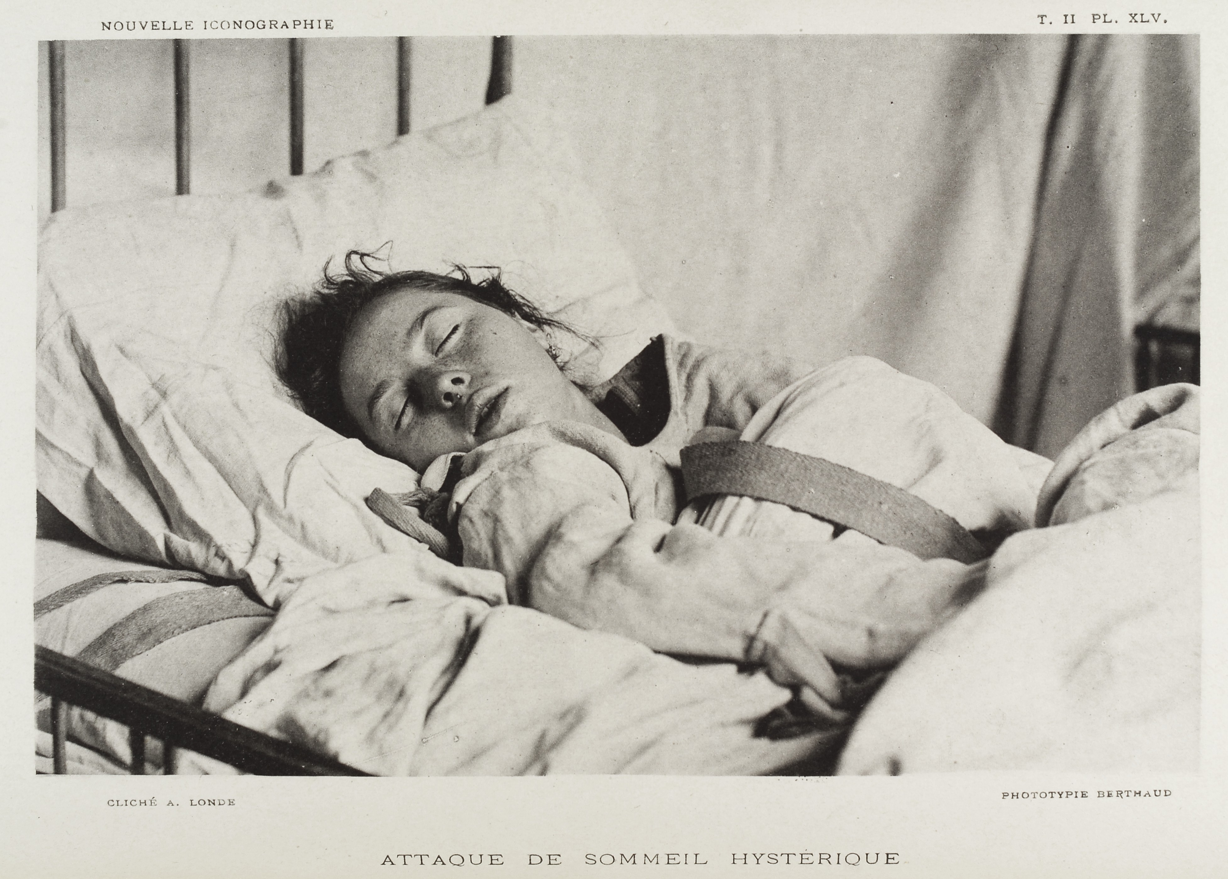 Female patient with sleep hysteria wearing a straight jacket General Collections Keywords: Melancholia; Madness; Hôpital Salpêtrière (Paris, France); Albert Londe; Depressive Disorder; Hysteria